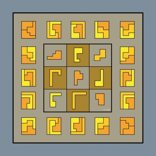 A 3×3 geomagic square using decominoes.